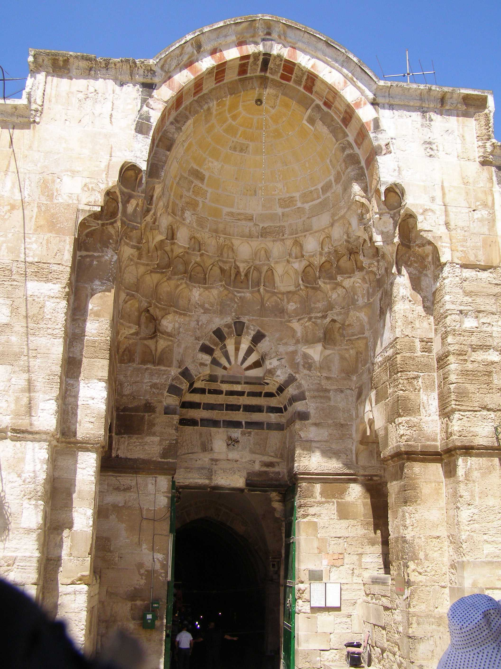 Temple Mount, Jerusalem Bab alkattanin - the gate of the cotton mechants